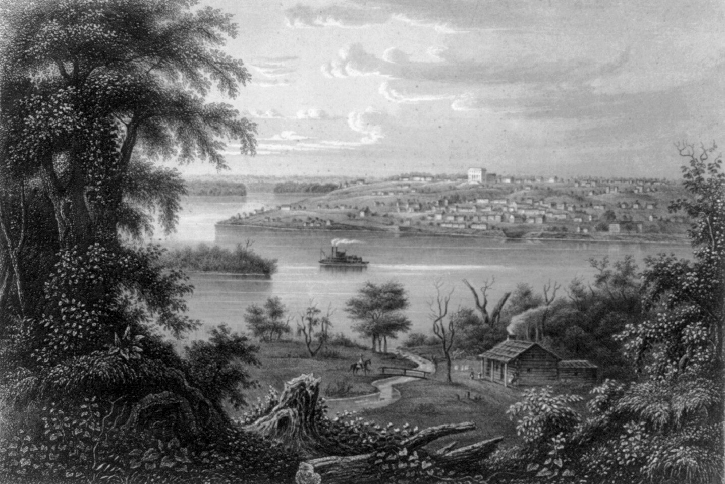 "Bird's-eye view from hill, across water to Nauvoo." Engraving of Nauvoo, Illinois, ca 1855